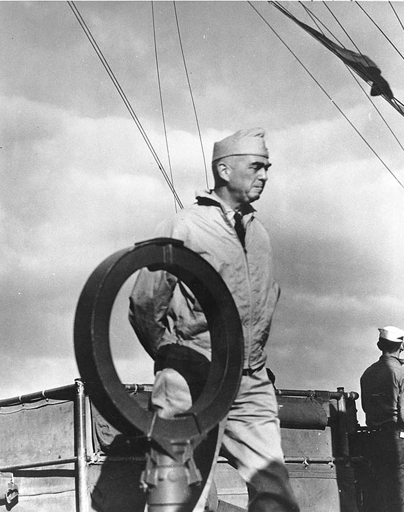 Rear Admiral Thomas C. Kinkaid, USN On board USS Enterprise (CV-6), 22 July 1942. Note radio direction finding loop in the foreground.